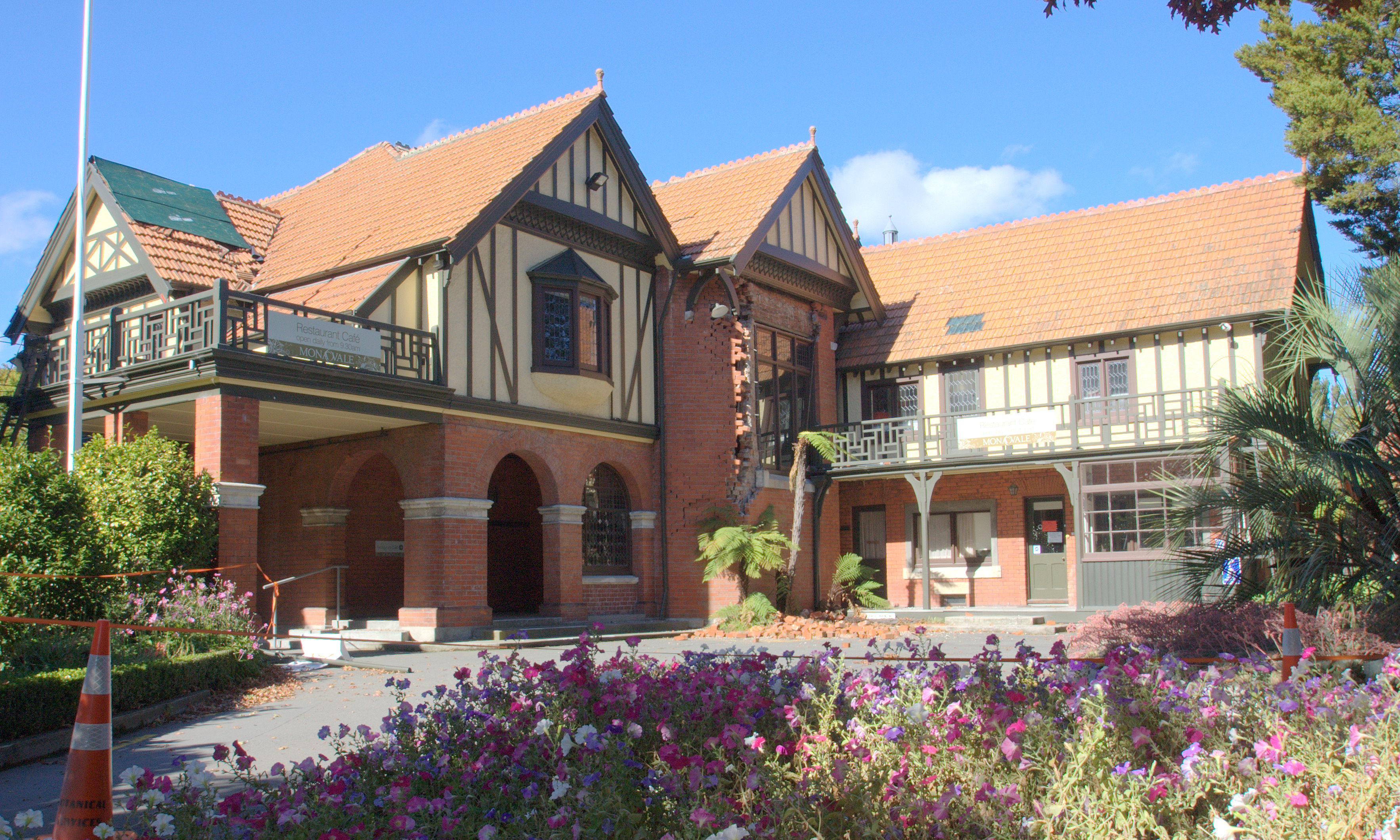 Mona Vale homestead. The back has lost quite a bit of brick around one window and there are cracks in some of the arches.